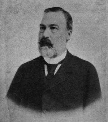 Portrait of Ervin Cseh